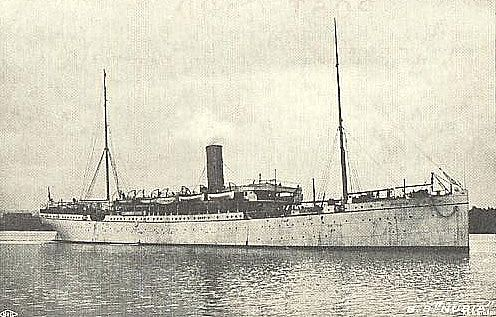 SS Nubia, built in 1895, wrecked off Colombo, Sri Lanka in 1915.